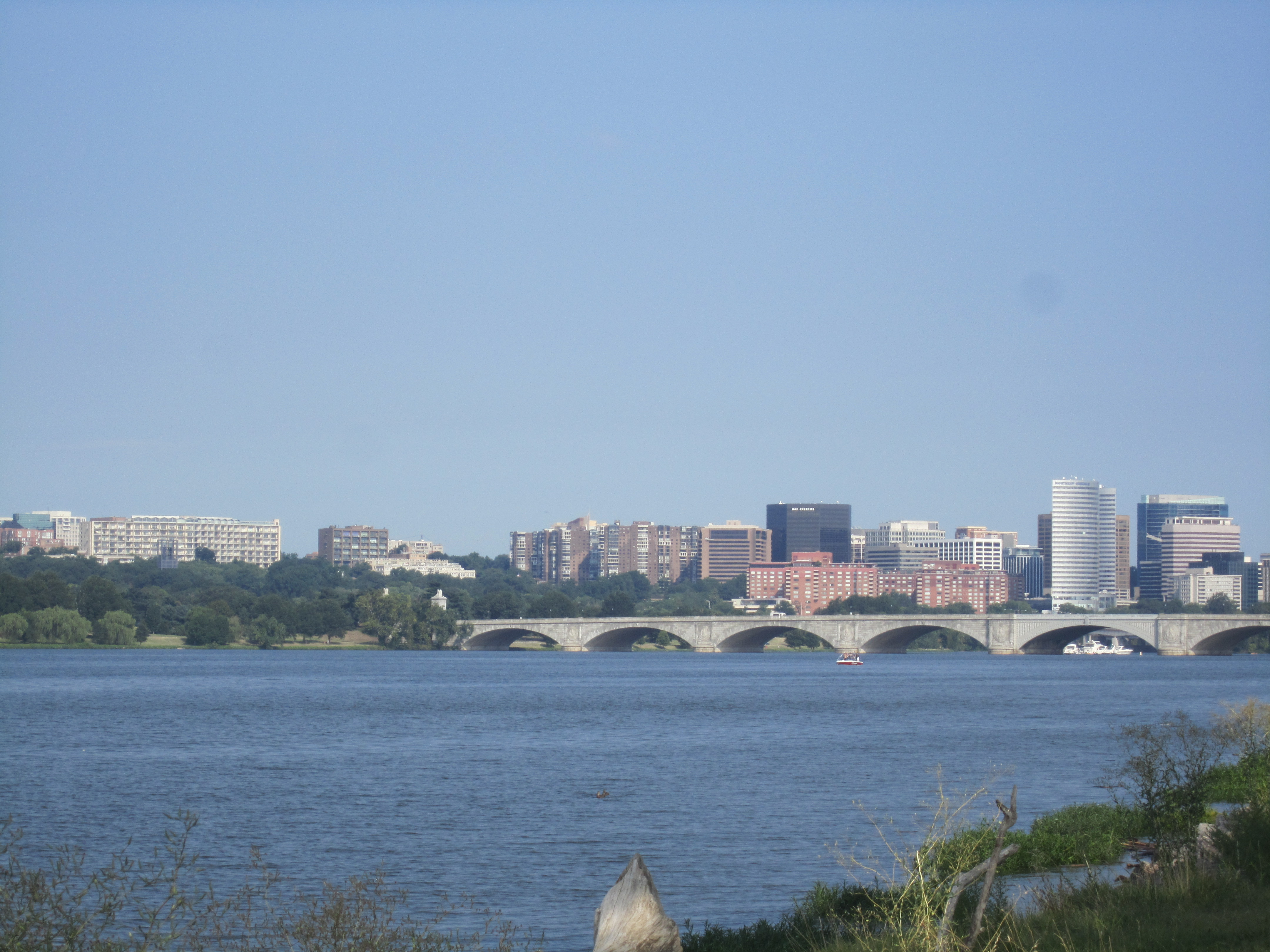 Potomac River and Arlington Memorial Bridge, Washington, D.C.